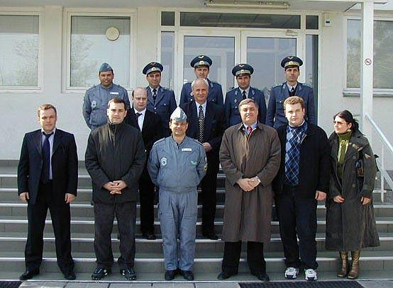 Irakli Alasania, First Deputy Minister of Defense; David Aptsiauri, First Deputy Minister of Foreign Affairs; 3 rd rank Captain Ramaz Papidze, Assistant to the Head of Georgian Customs; Batu Kutelia, Chair of the Political-Military Department at the National Security Council; Shota Utiashvili, Chair of the newly-formed Analytical Center at the Ministry of State Security, poses with the commander and senior officers of Graf Ignatievo Air Base